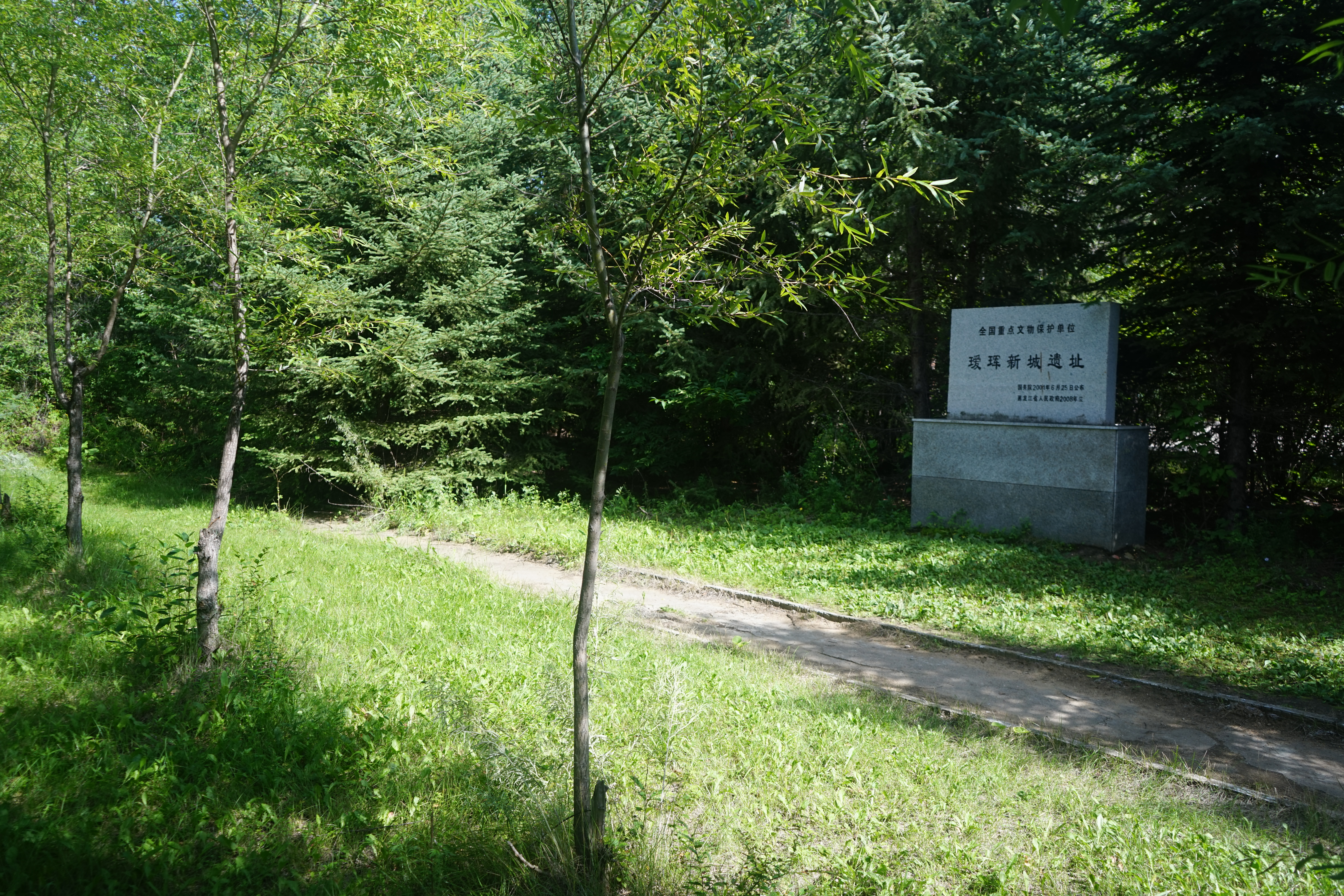 New Aihui Town Site national protection stele